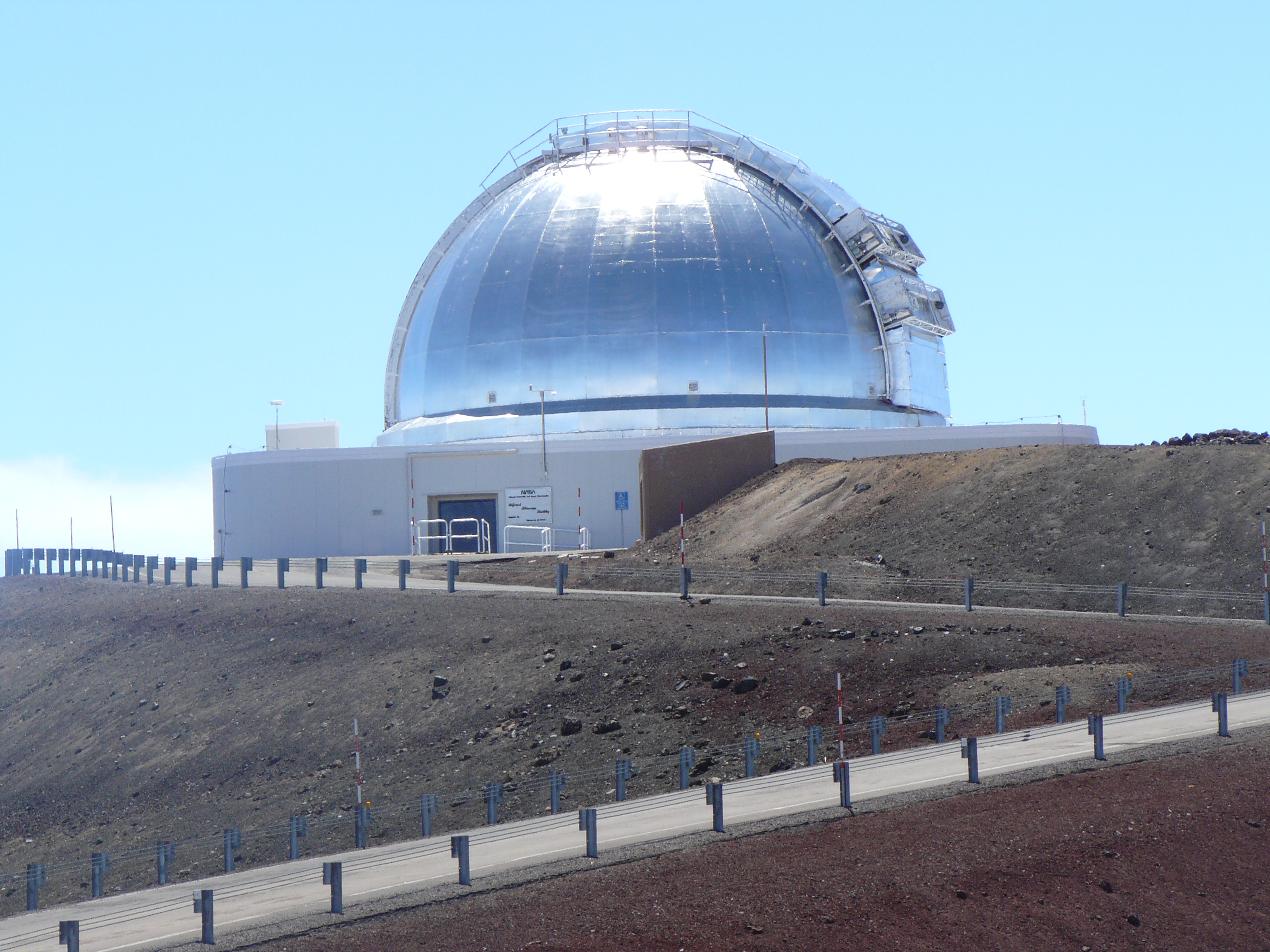 The NASA Infrared Telescope Facility, part of the Mauna Kea Observatory in Hawai'i.